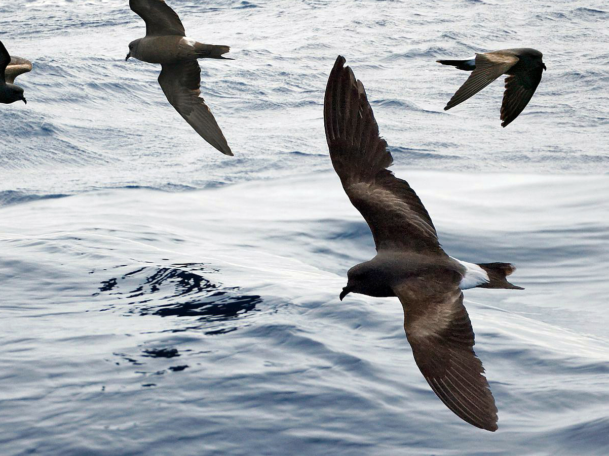 Leach's petrel from the Crossley ID Guide Eastern Birds